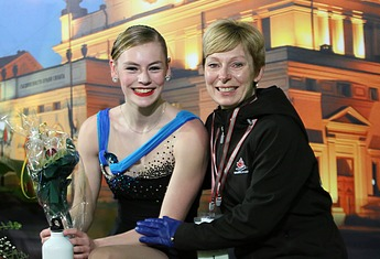 Larkyn Austman and Heather Austman at the 2014 Junior World Championships